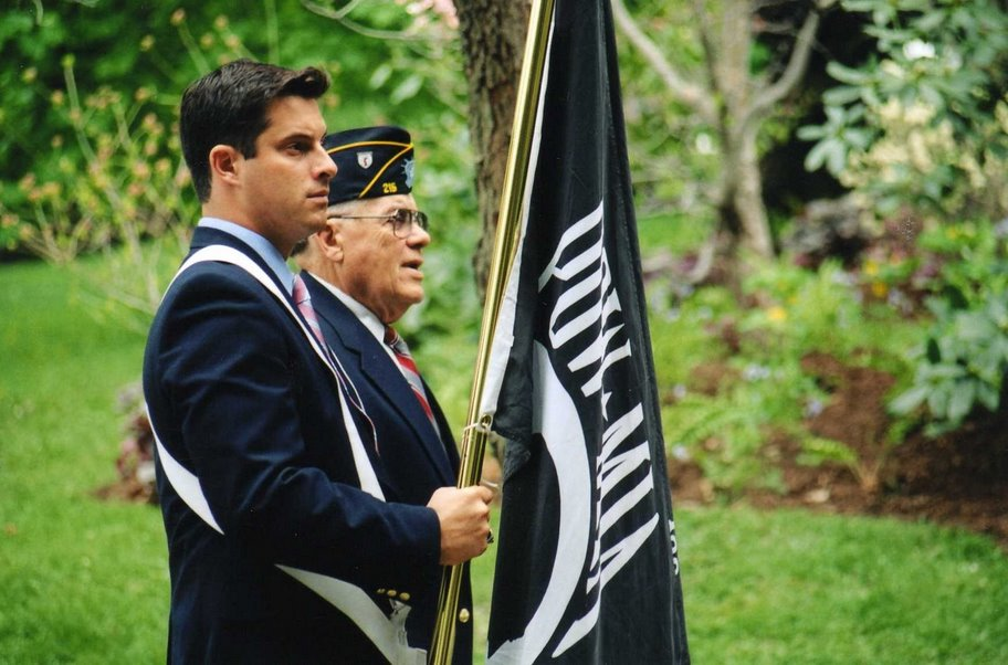 Greg Ball during the Pawling veterans day ceremony, October 1, 2007